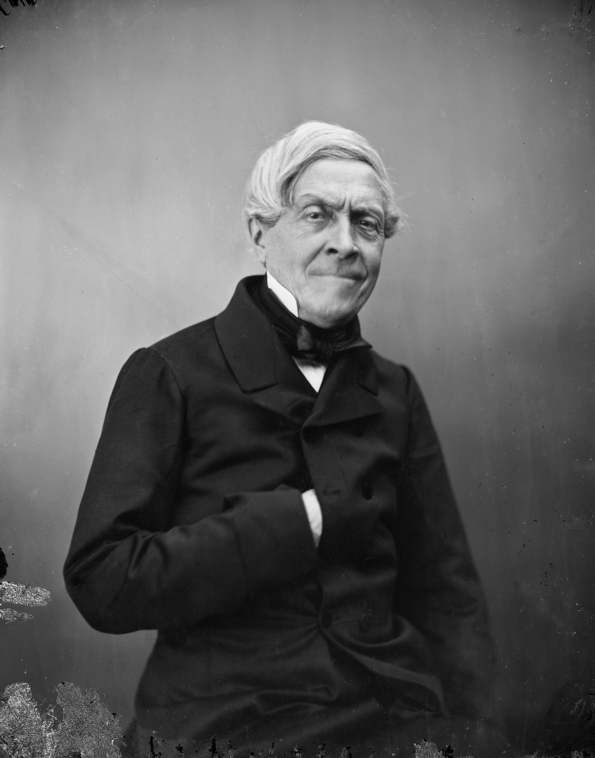 Jules Michelet photographied by Gaspard Félix Tournachon Nadar.